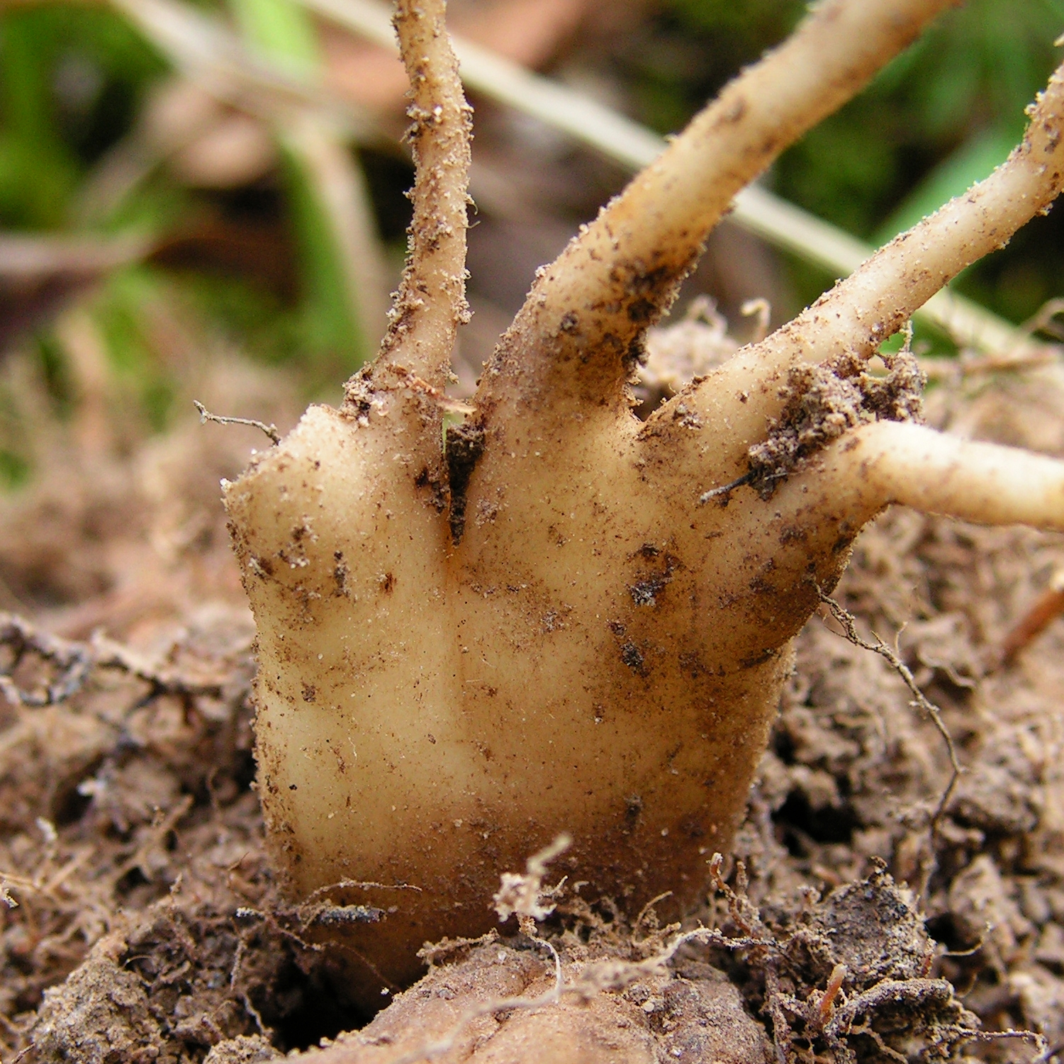 The tuber of Dactylorhiza maculata. Moscow region, Russia.